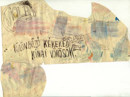 When Ilka Gedő created a painting, the mixing of colours did not occur in a random manner, but by looking for a given colour and/or colour hue that in the artist’s mind was required at the given moment. The colour hues and colour variations of a given basic colour were selected by basic colours and put into separate boxes. By colour patterns (the artist’s expression) the artist meant small pieces of scrap or cardboard, not seldom pieces of canvas, that served as a trial for various colour combinations.